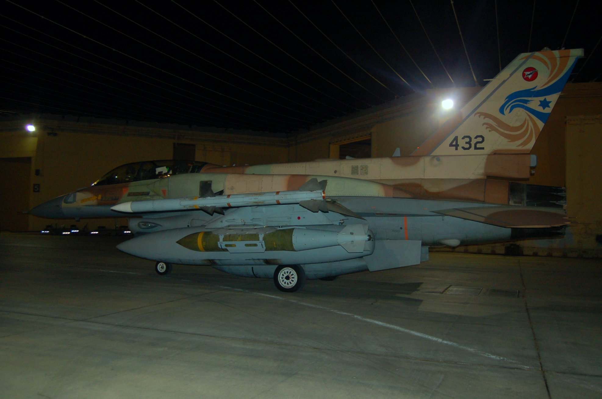 F-16I (Israeli Air Force) with BLU-109 forged steel point tip, and a BLU109 JDAM, 2000lb bunker buster penetration bomb.